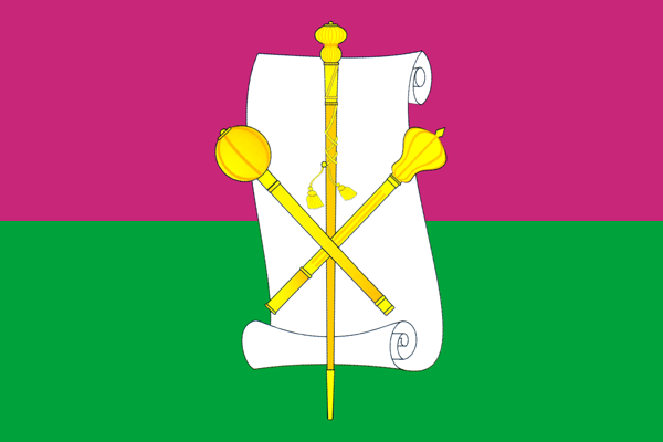 Flag of Bryukhovetsky rayon, Krasnodar Territory, Russia